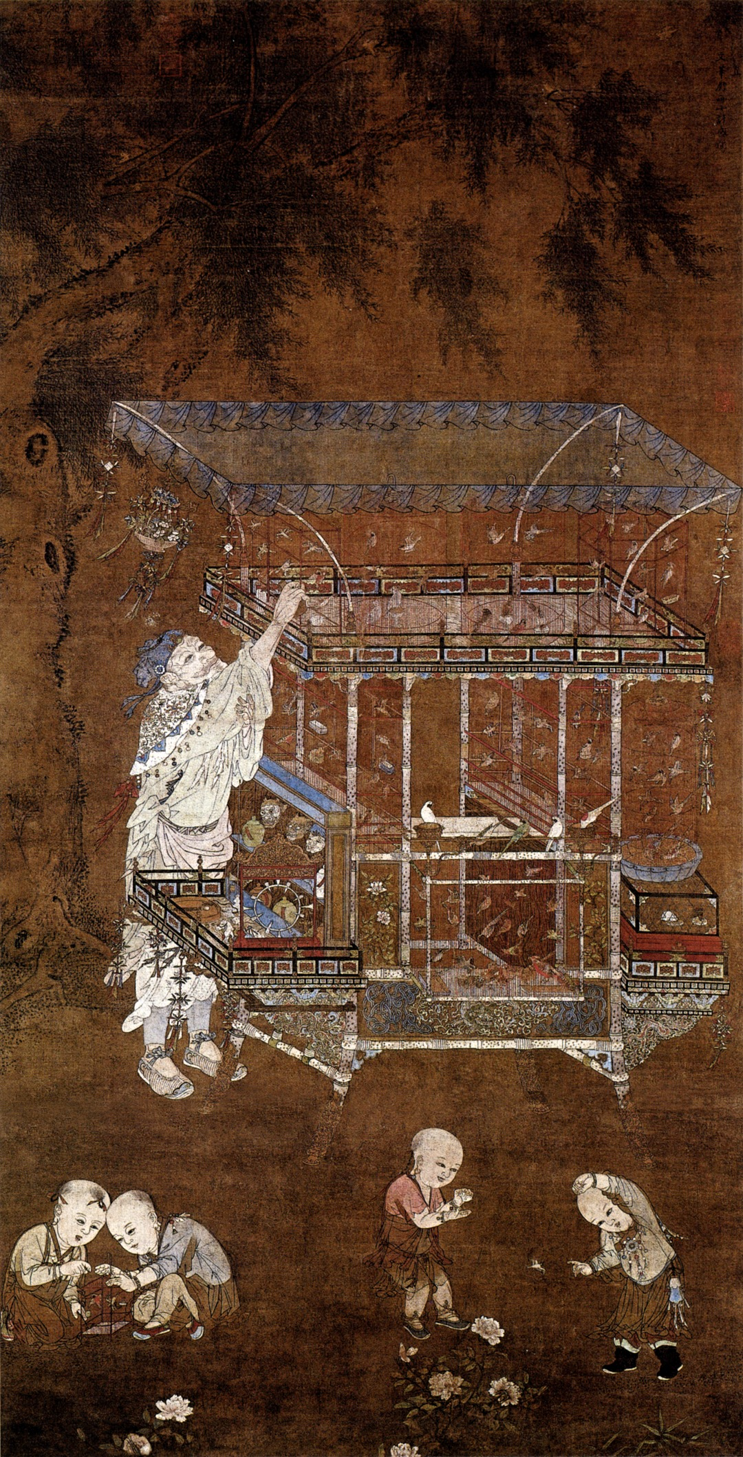 Peddlar, hanging scroll, color on silk, 191.5 x 99 cm. Located at the Palace Museum.